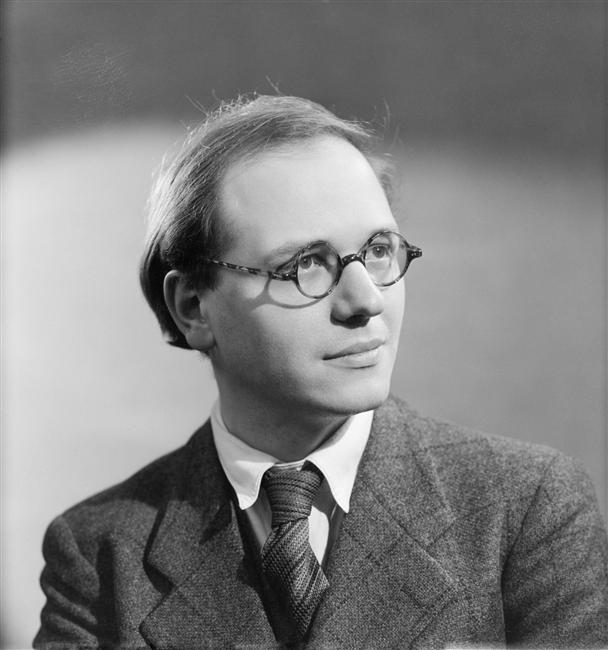 Studio photo